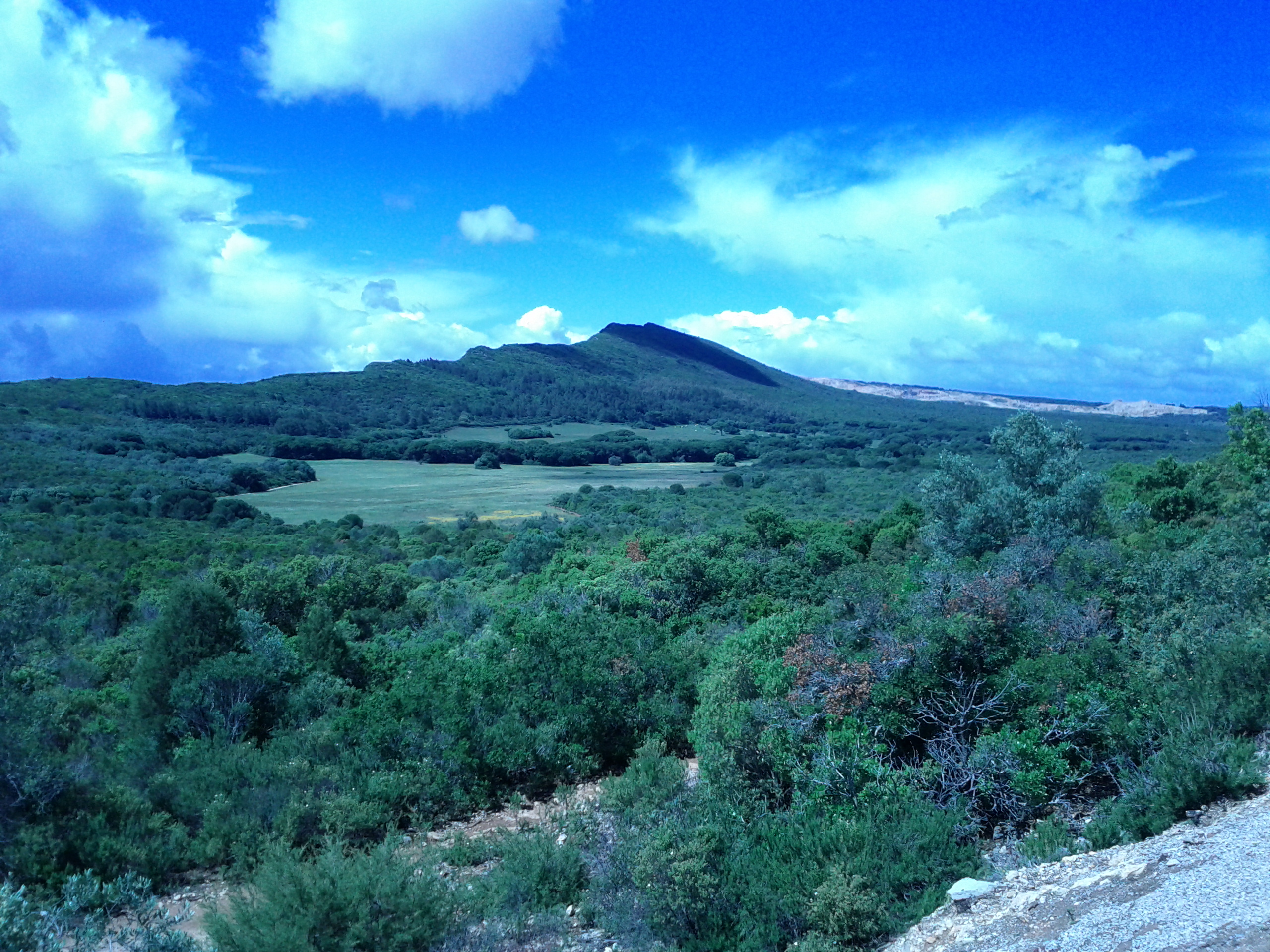 Risco ridge, Arrábida, Portugal. This is a photography of a Site of Community Importance in Portugal with the ID: PTCON0010. Natura2000 entry, EEA entry